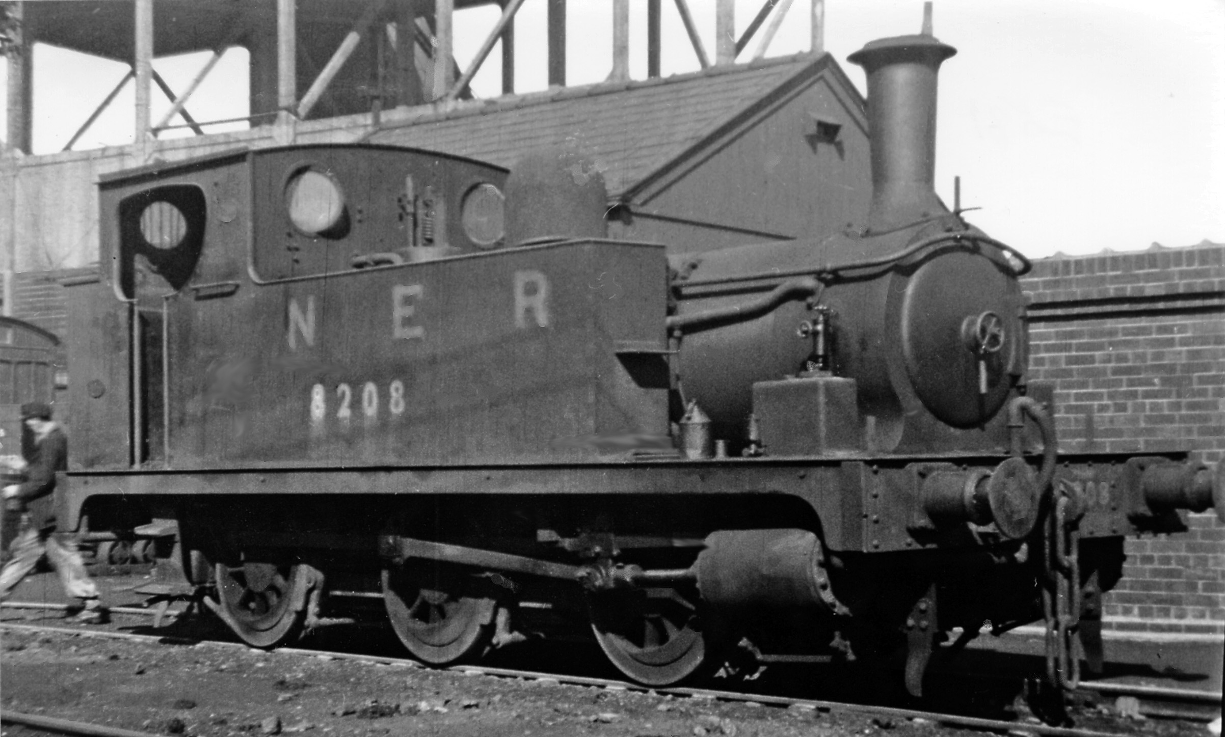 Ex-Great Central J63 0-6-0 Dock Tank at Immingham Locomotive Depot. Ex-GC J63 No. 8208, normally employed on the extensive Docks lines at Immingham and Grimsby, rests by the coaler at Immingham Locomotive Depot on a Sunday. Docks Tanks were characterised by short wheelbase and outside cylinders, for negotiating sharp curves and narrow confines. (See also TA1915 : A Gresley K2 2-6-0 at Immingham Locomotive Depot).